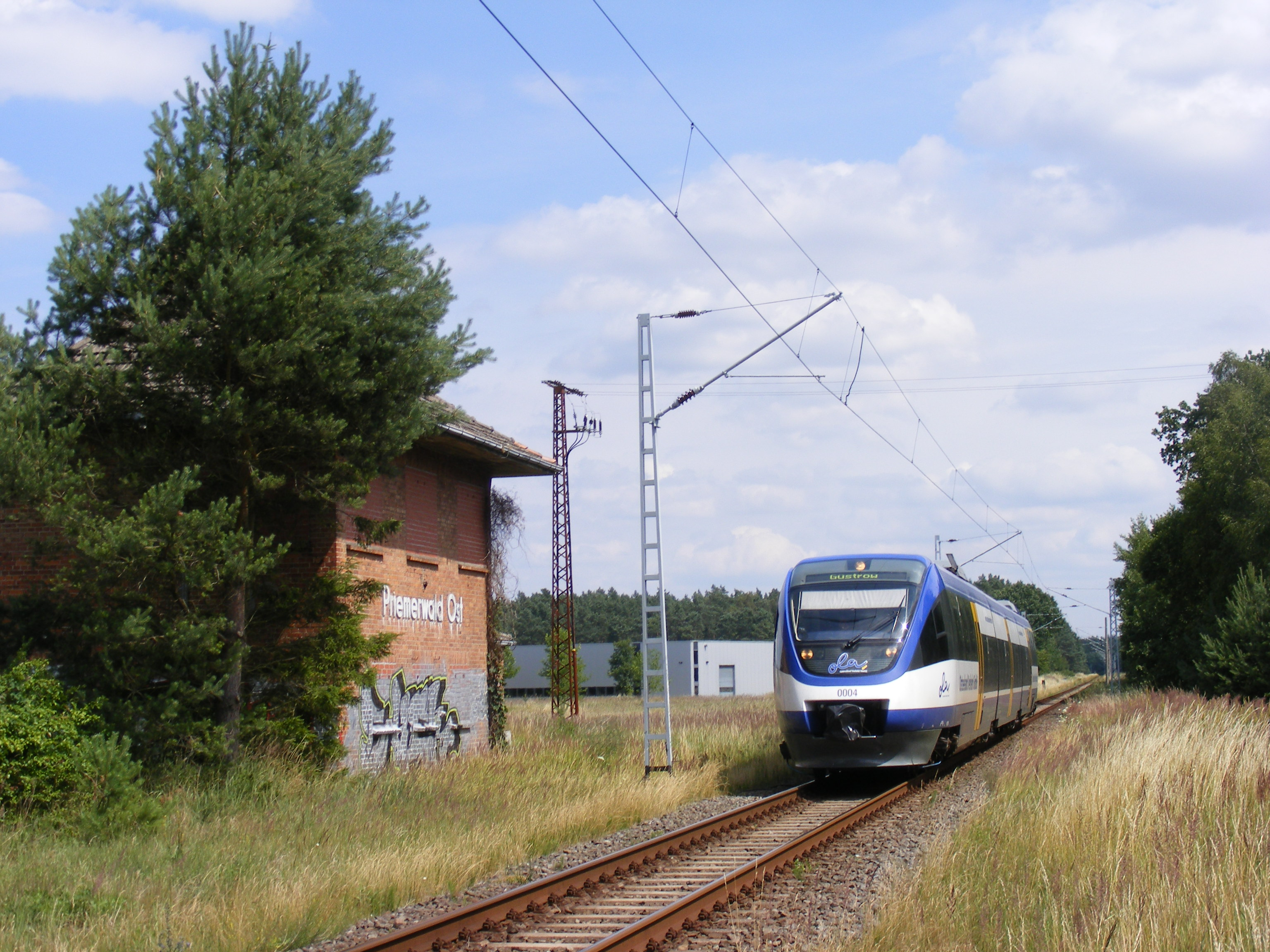 Train Rostock—Laage—Guestrow at former junction Priemerwald Ost